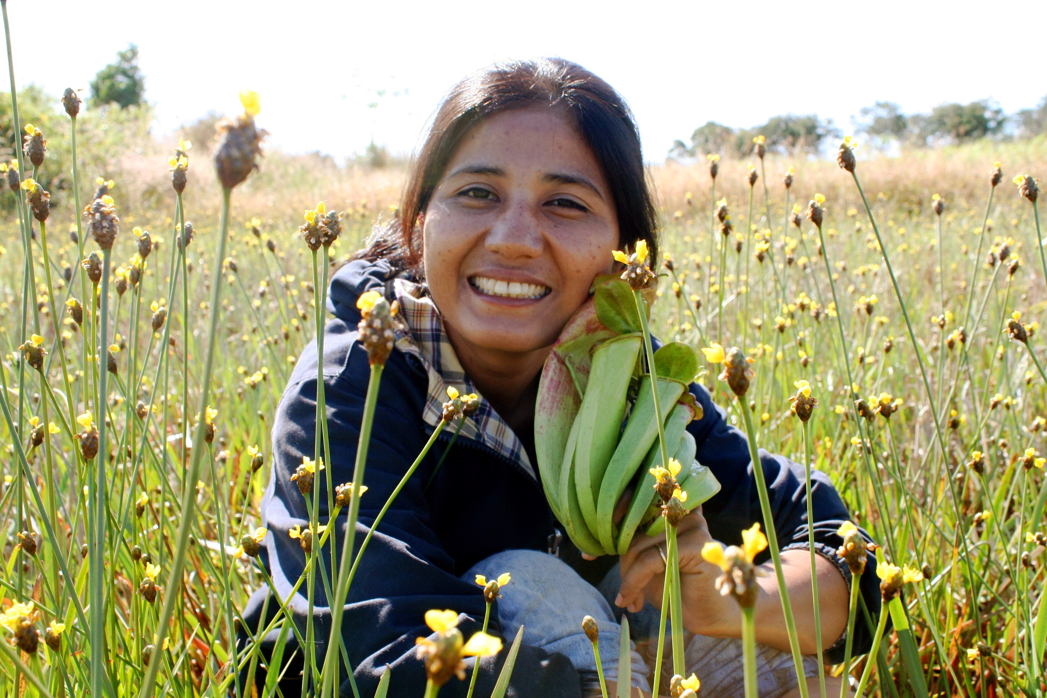 Short break after collecting pitcher plants for dinner